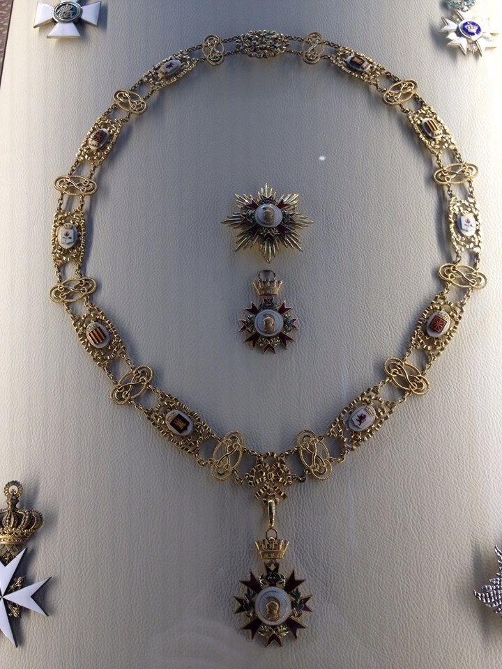 Collar of the Order of the Spanish Republic. In the Museum of the Légion d'Honneur in Paris. I took the picture as we are allowed to take them without flash.